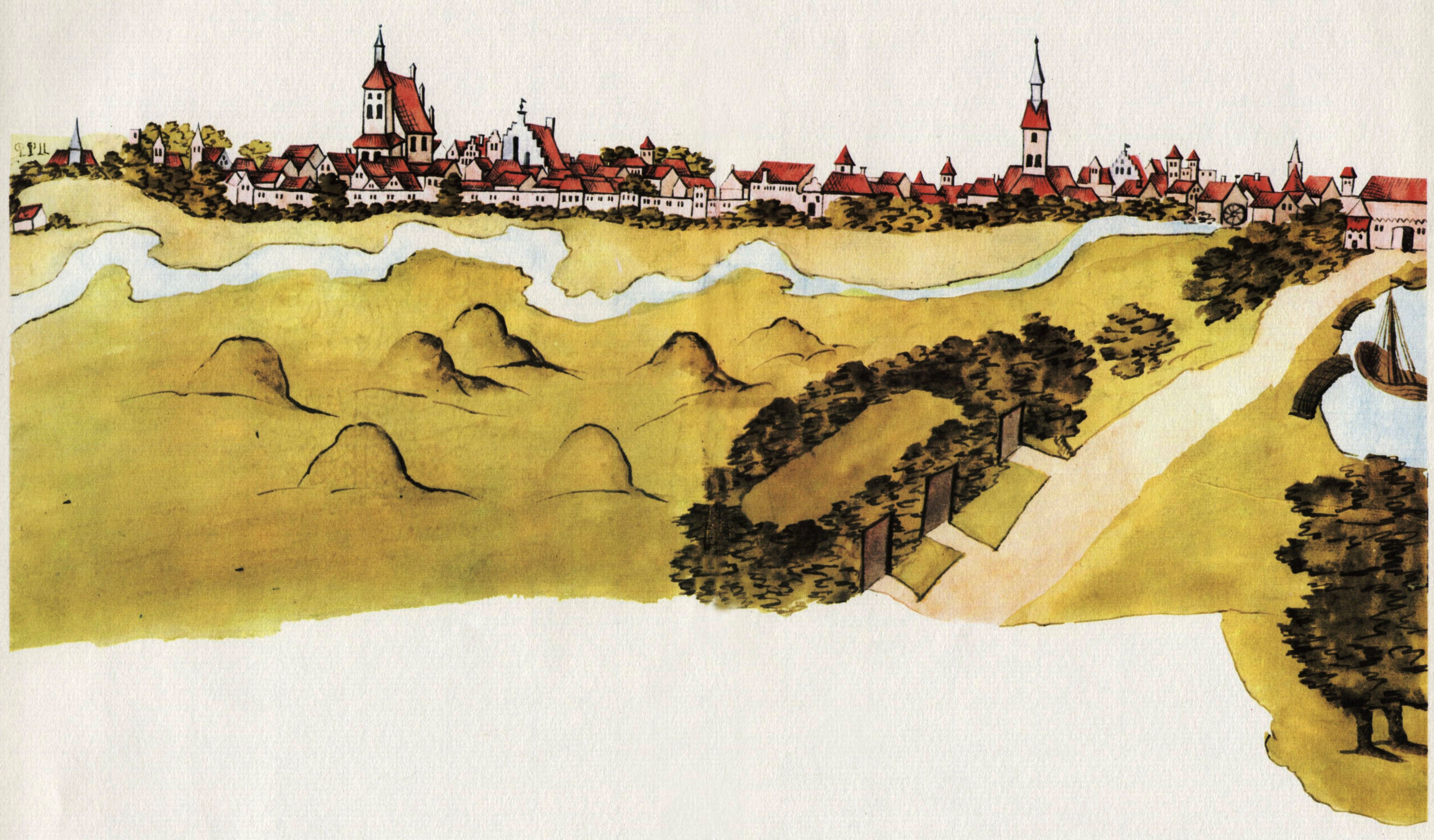 Cityview of Pasewalk from the "Stralsunder Bilderhandschrift"